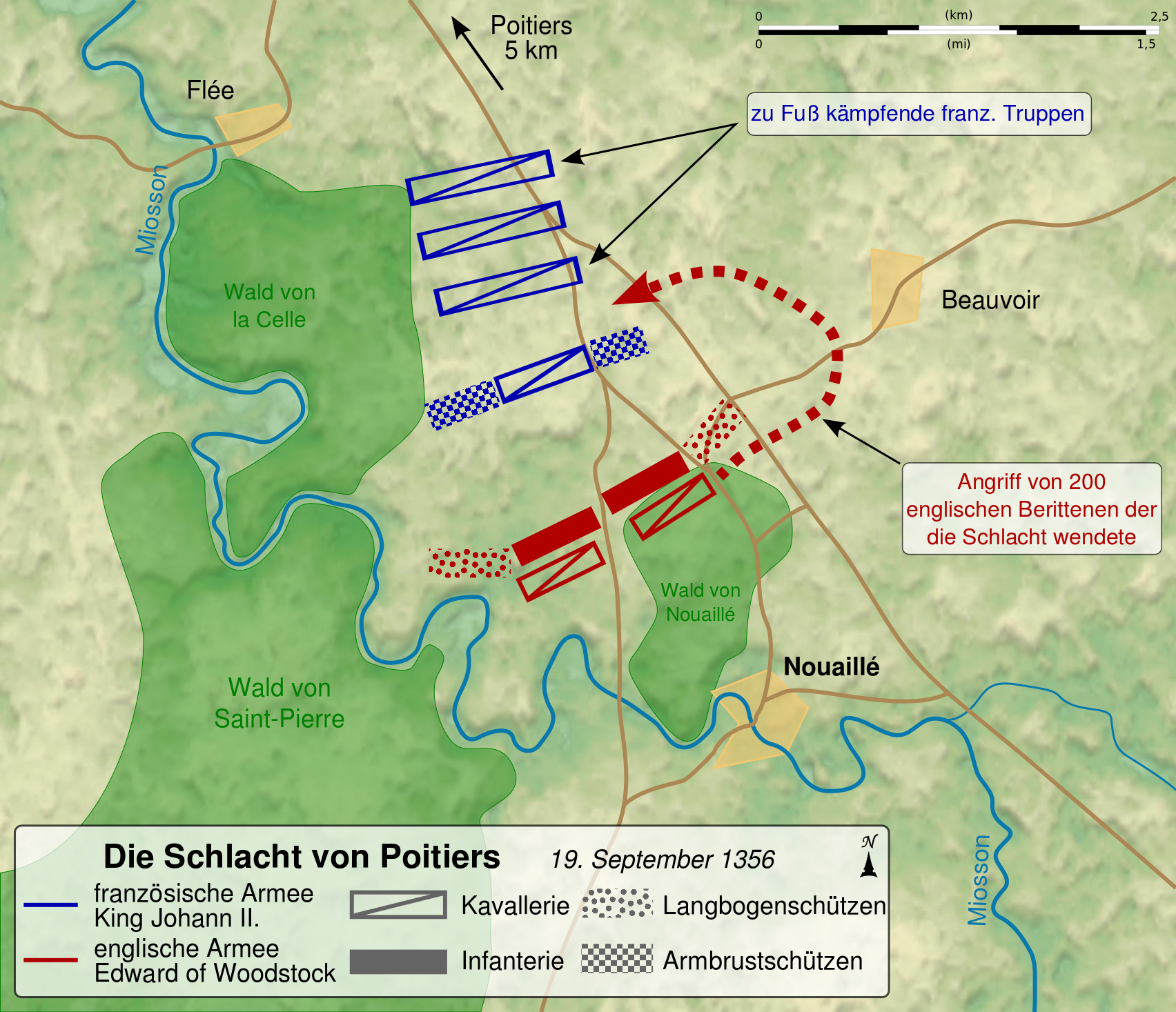 Map of the Battle of Poitiers (1356), between the French army of King John II and the English army of the Black Prince.